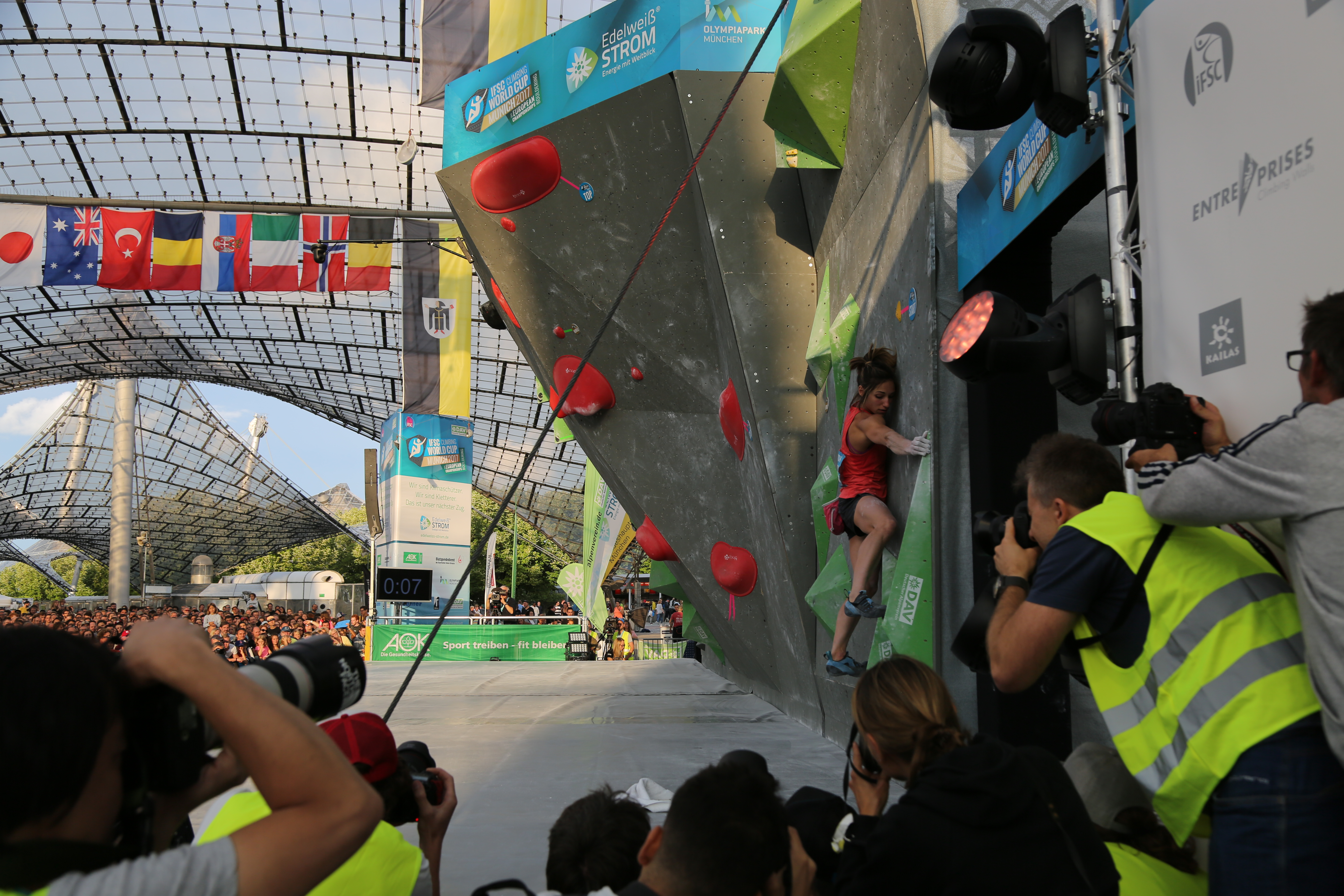 Alex Puccio, USA, at the Boulder Worldcup 2017 in Munich, Germany